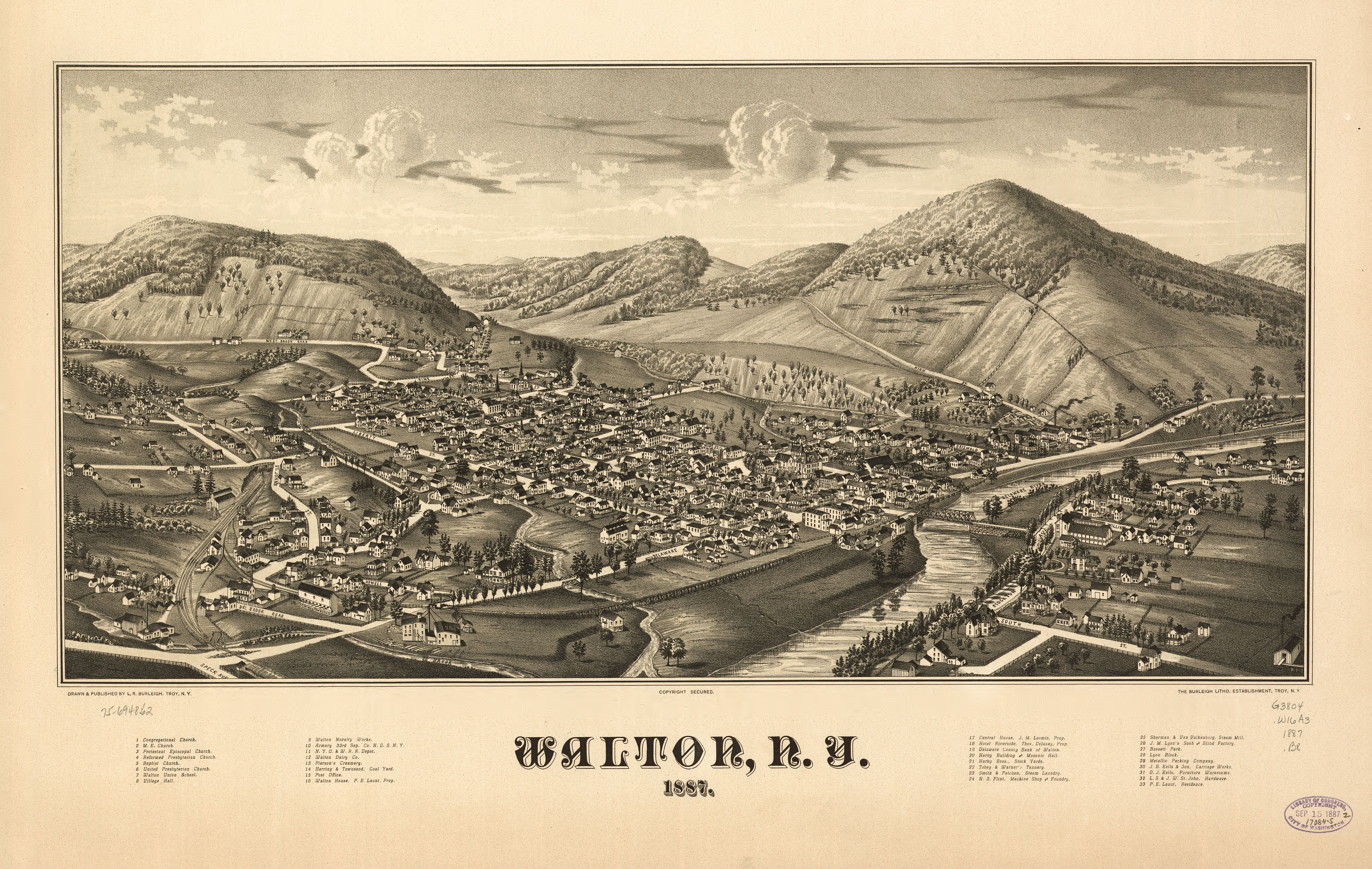 Perspective map not drawn to scale. Bird's-eye-view. LC Panoramic maps (2nd ed.), 647 Available also through the Library of Congress Web site as a raster image. Indexed for points of interest. AACR2